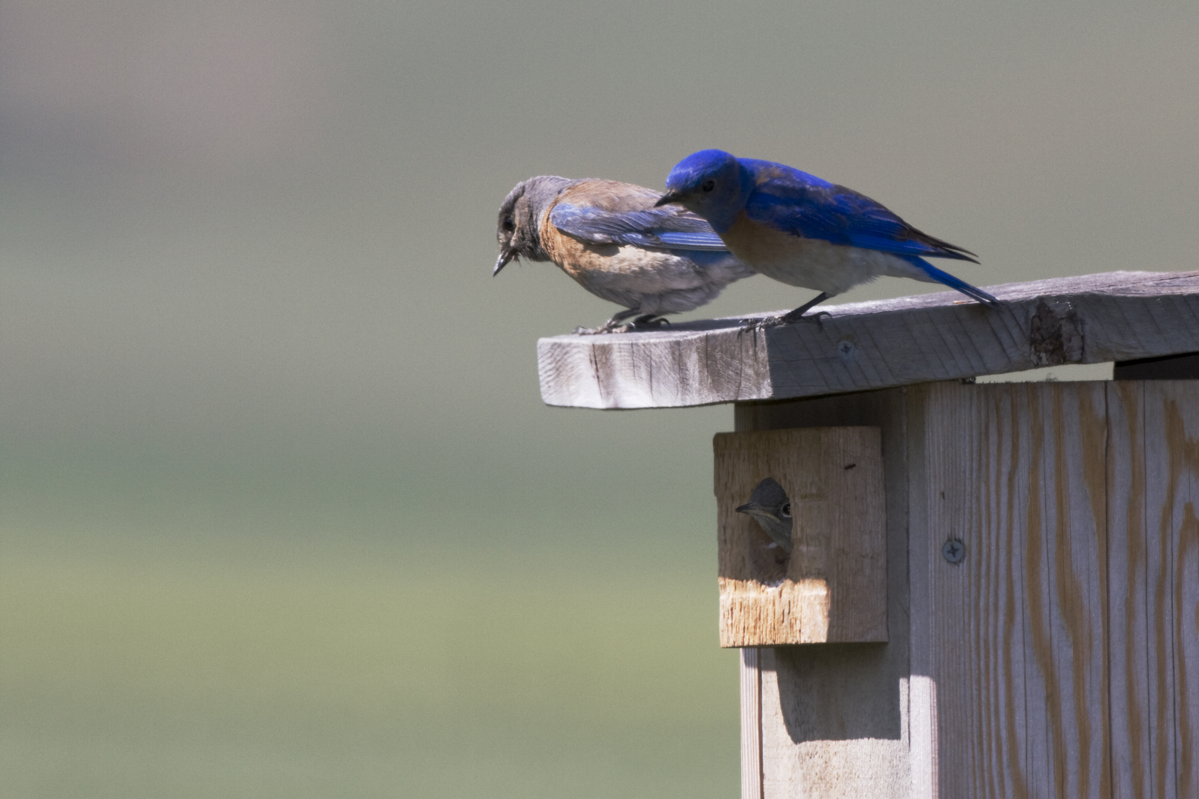 Western Bluebird parents coaxing the last fledgling from the nest. Morro Bay, Los Osos, California